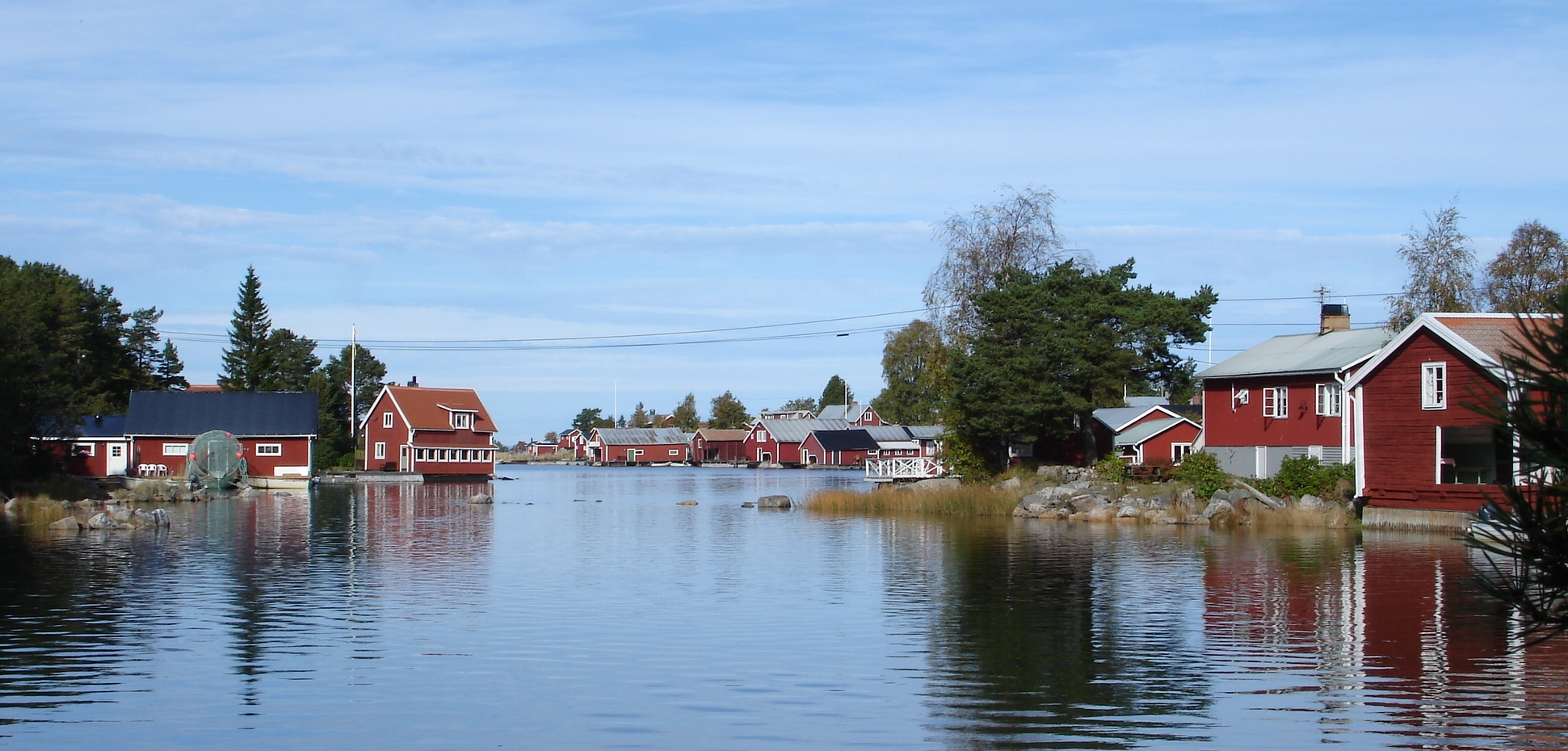 Kuggörarna i Hälsingland i september 2009.